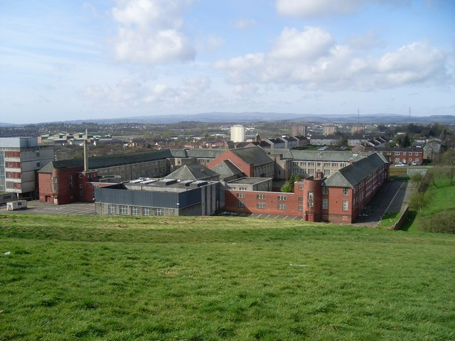 Old building of Clydebank High School Due for demolition, as a new building has been completed next to this old one.